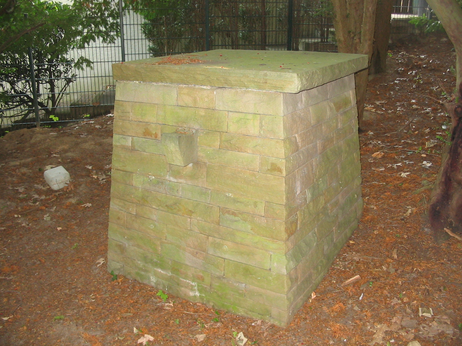 former memorial at communal cemetery in Witten-Annen